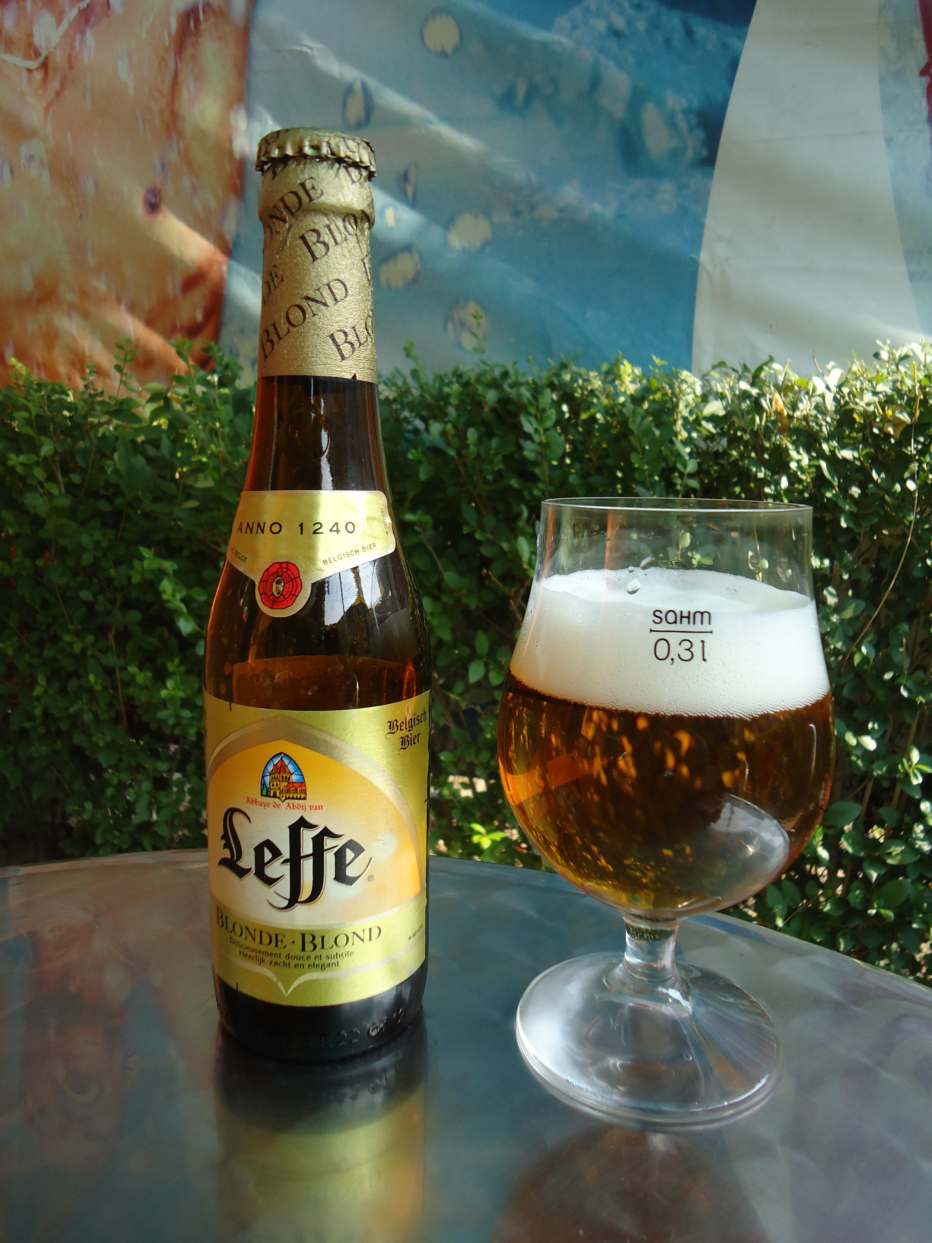 Leffe Blond